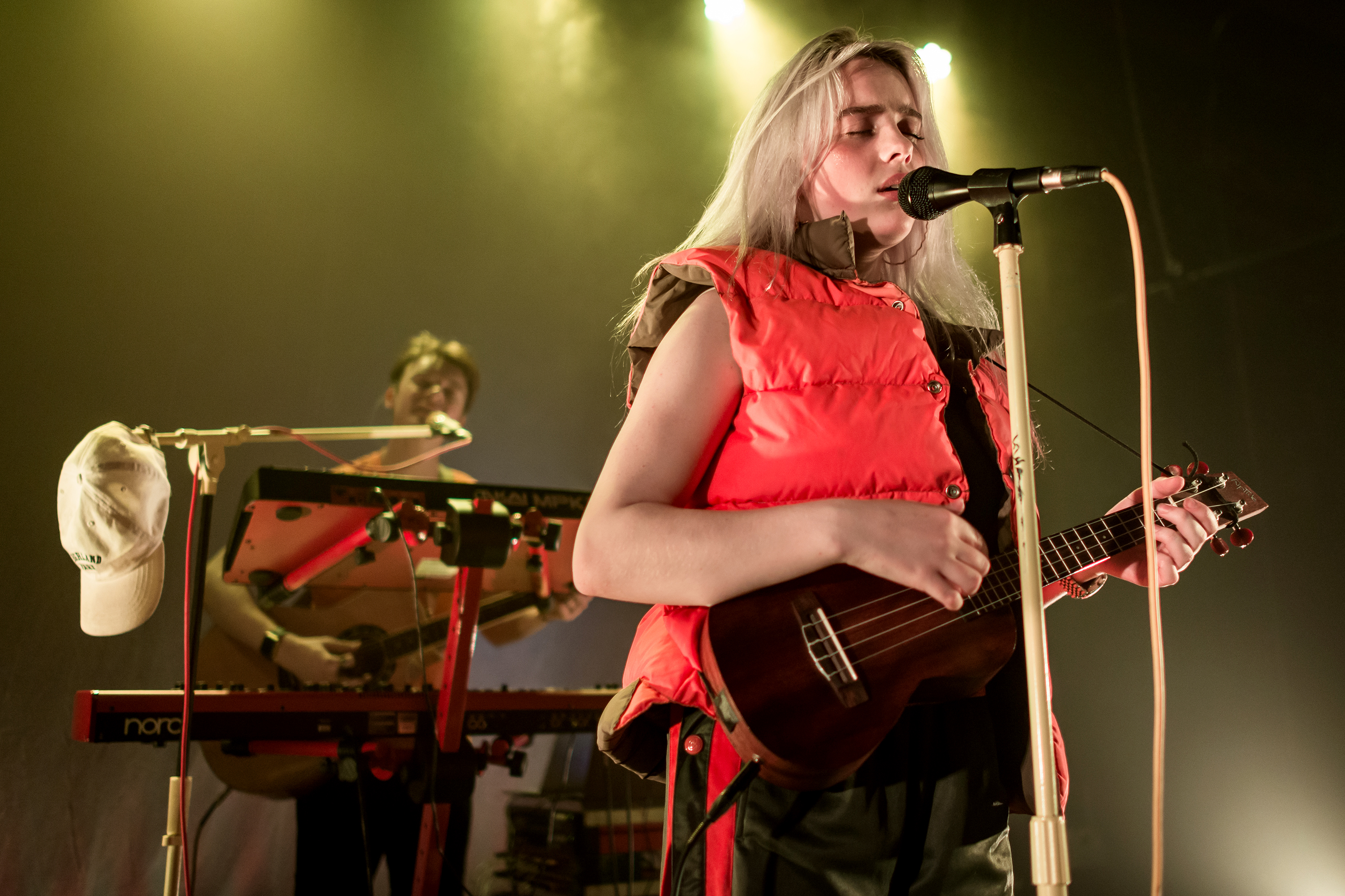 Billie Eilish performing live at The Hi Hat in Highland Park, Los Angeles, California, on Thursday, August 10, 2017.